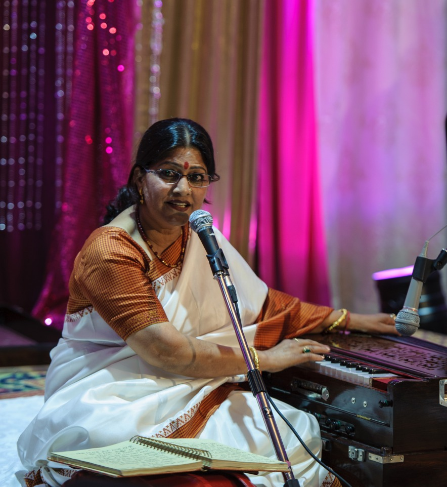 This file shows kailash Mehra Sadhu performing live at a concert in canada in july 2012.